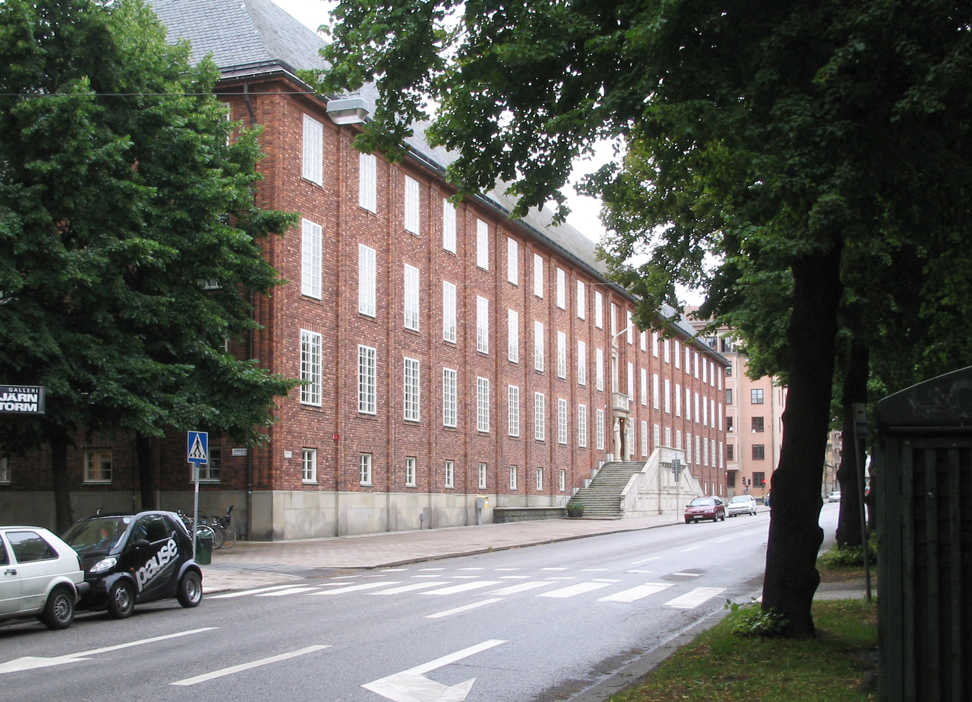 The swedish patent office, located on Valhallavägen in Stockholm.